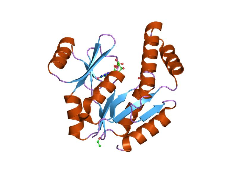 Cartoon representation of the molecular structure of protein registered with 1gky code.